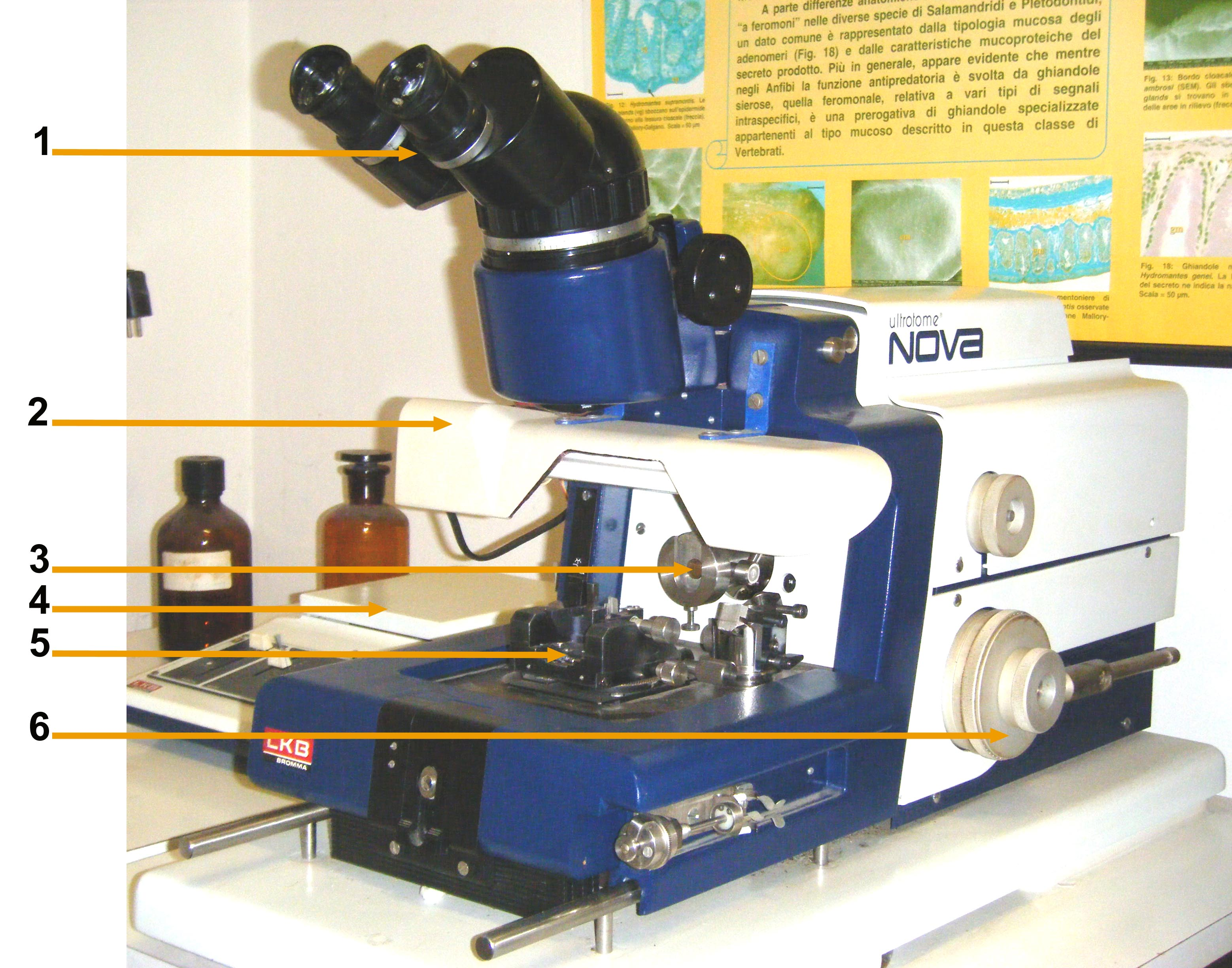 Ultramicrotome LKB